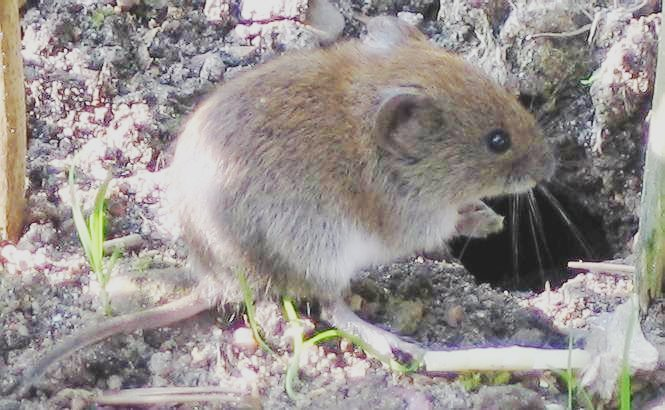 based on an image from Wikimedia commons, by user soebe, which he GFDL-licensed; see File:Rötelmaus I.jpg. This version has been lightened up a little to make it look better.